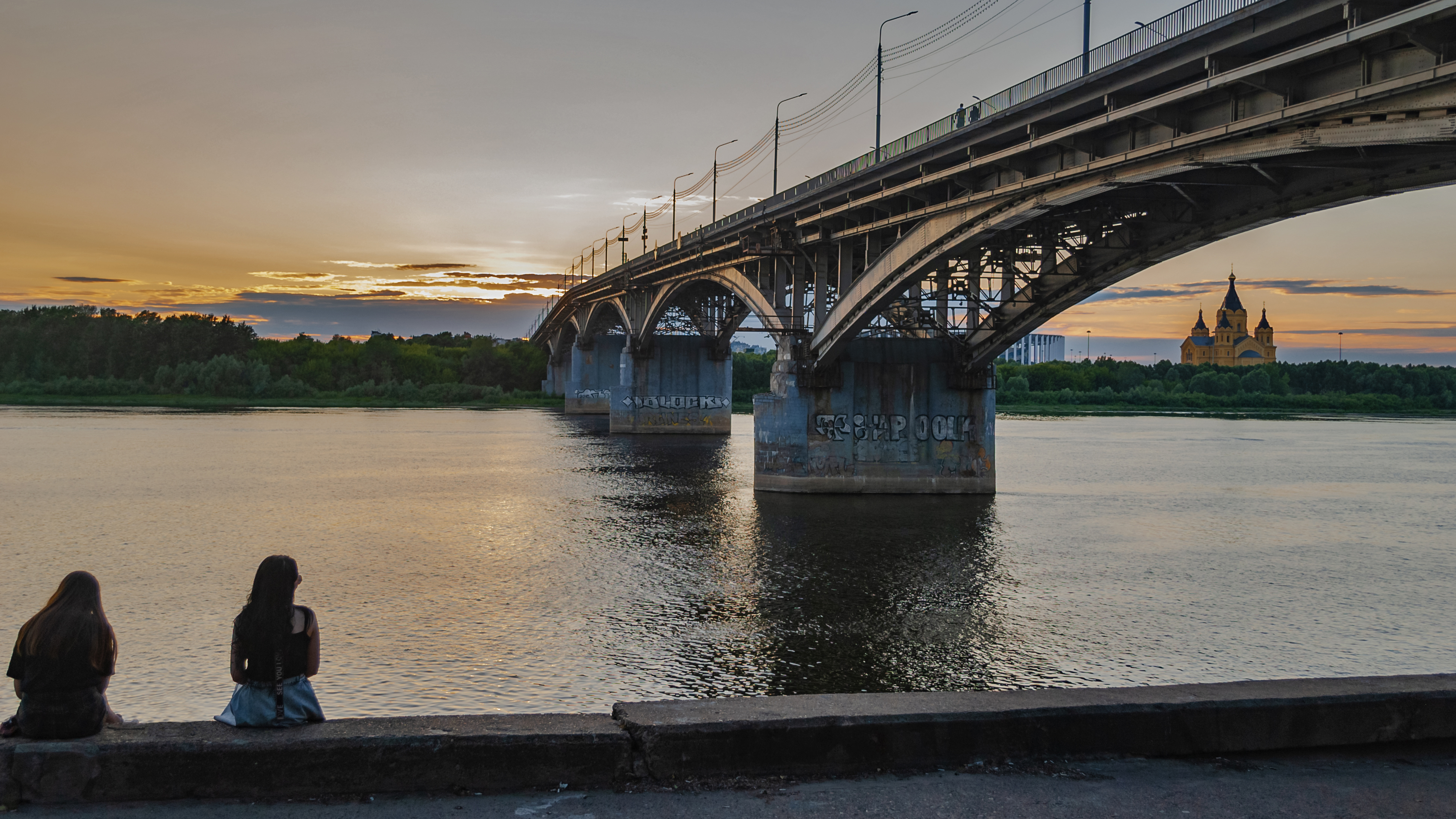 Kanavinsky Bridge, Alexander Nevsky Cathedral and Nizhny Novgorod Stadium